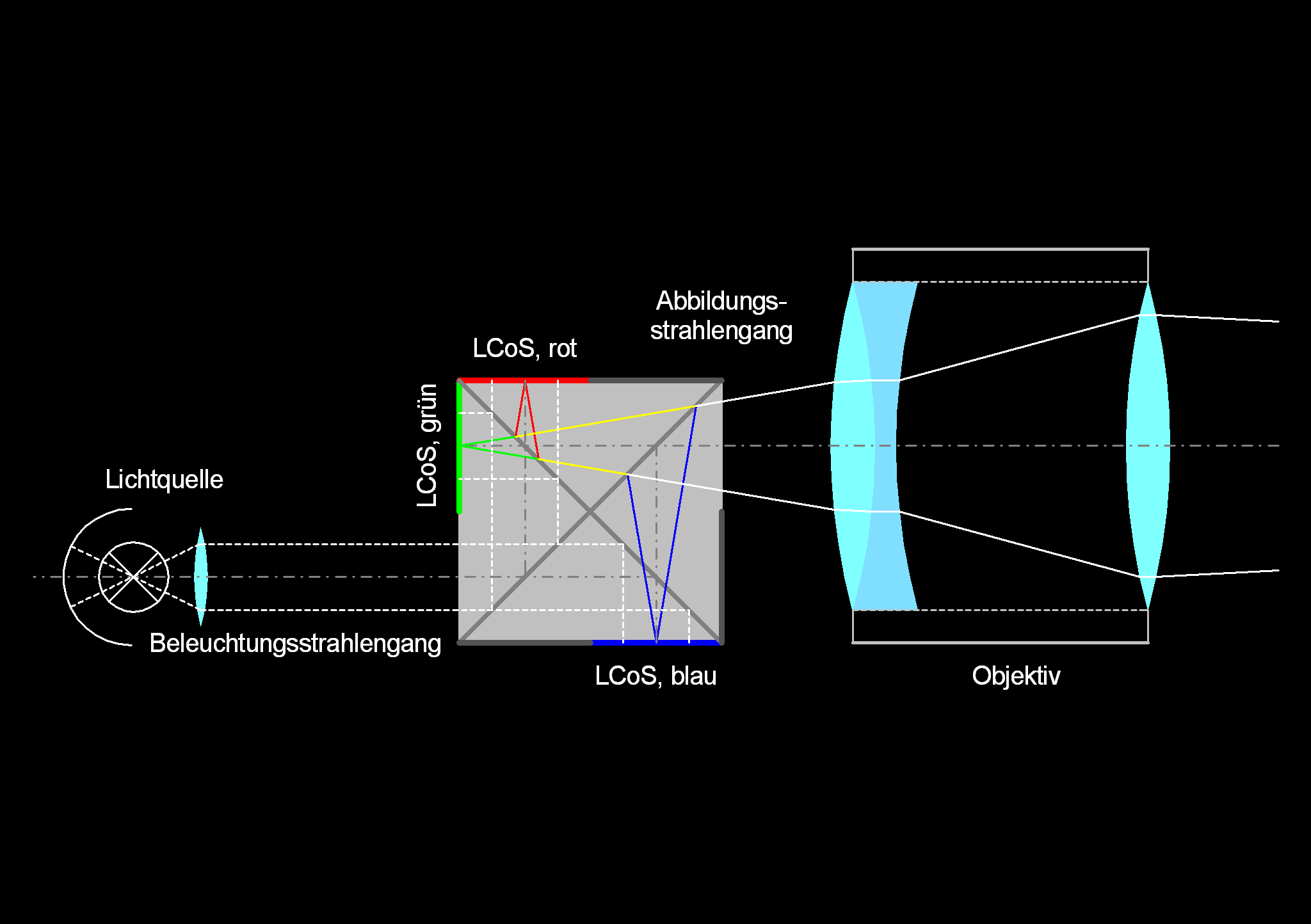 Principle construction of an LCoS projector